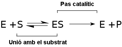 Simple diagram of an enzymatic reaction, tags in Catalan